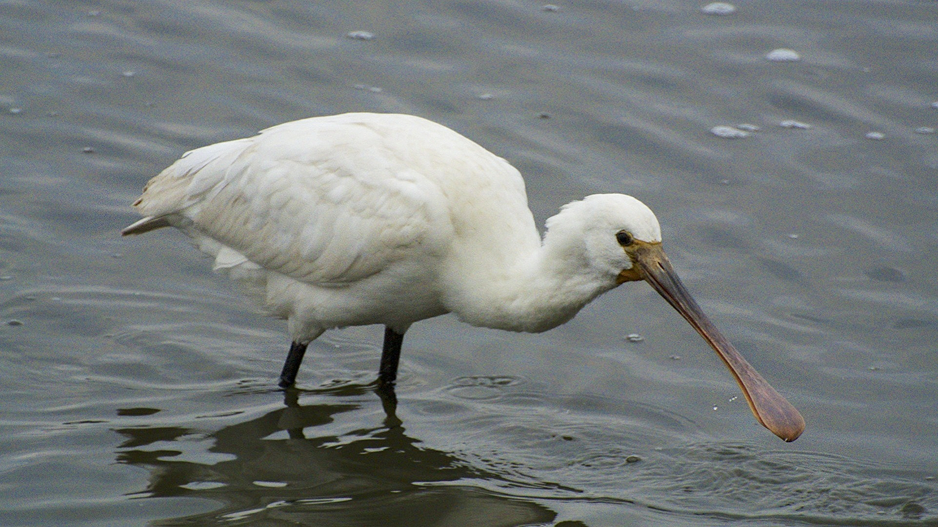 A juvenile Eurasian Spoonbill in Holes Bay, Poole, Dorset, England.